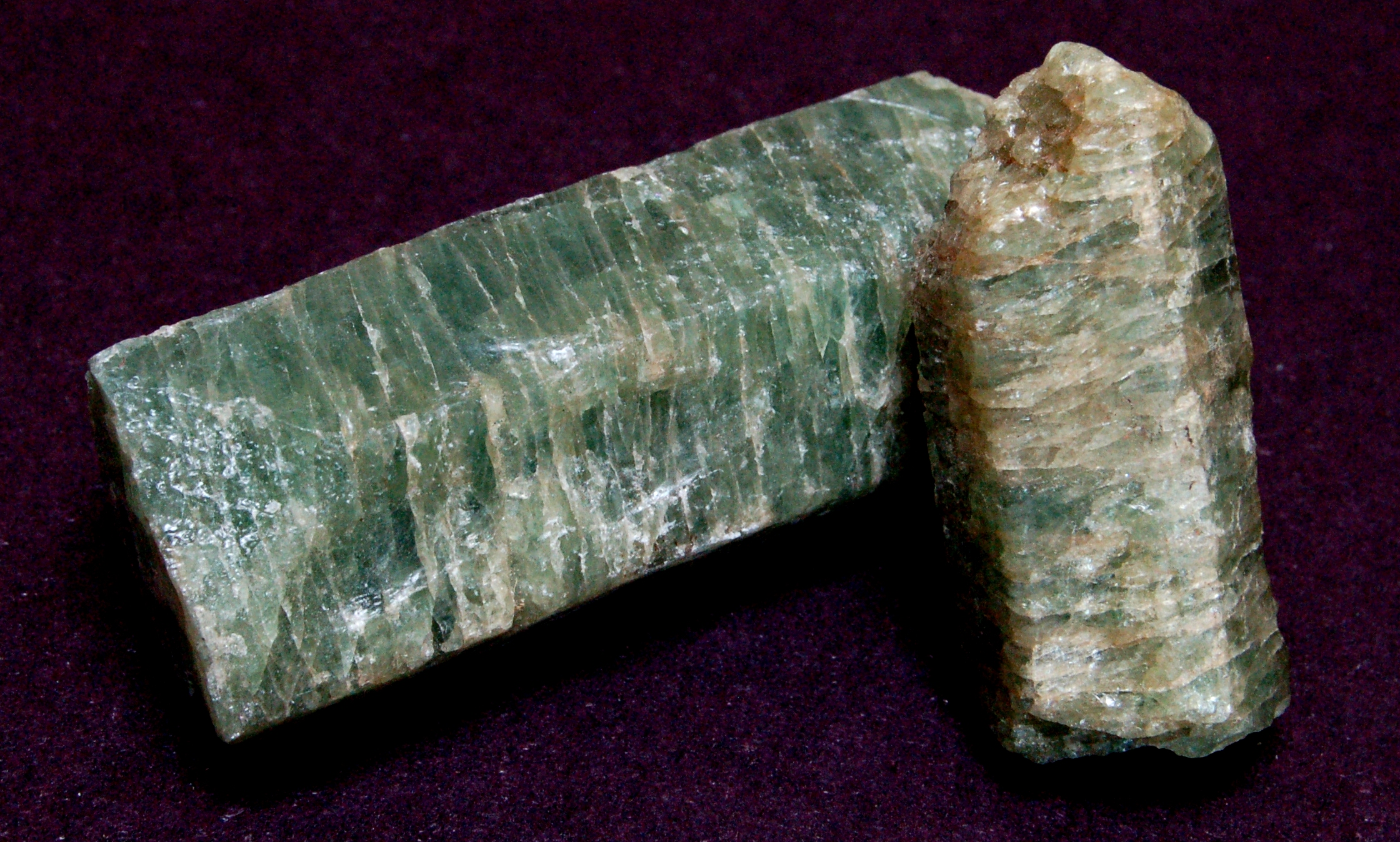 Two Apatite crystals, 1.25 inches (32mm) and 2 inches (51 mm) from Quebec, Canada. They have been removed from their original pink matrix. Nikon D50 with available light